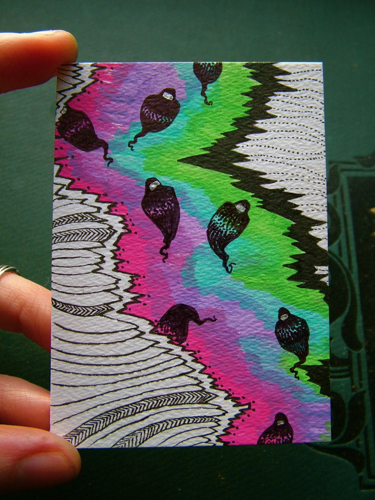 A photo of an artist trading card